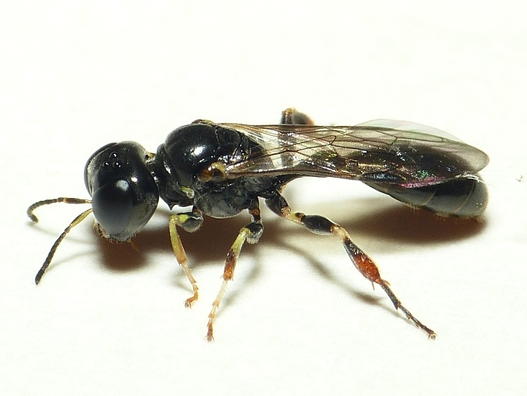 Rhopalum coarctatum, location: The Netherlands - Rhenen - Blauwe Kamer - Gelderland